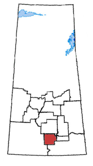 Map of the Palliser electoral district. Based on Earl Andrew's maps, created by SimonP.